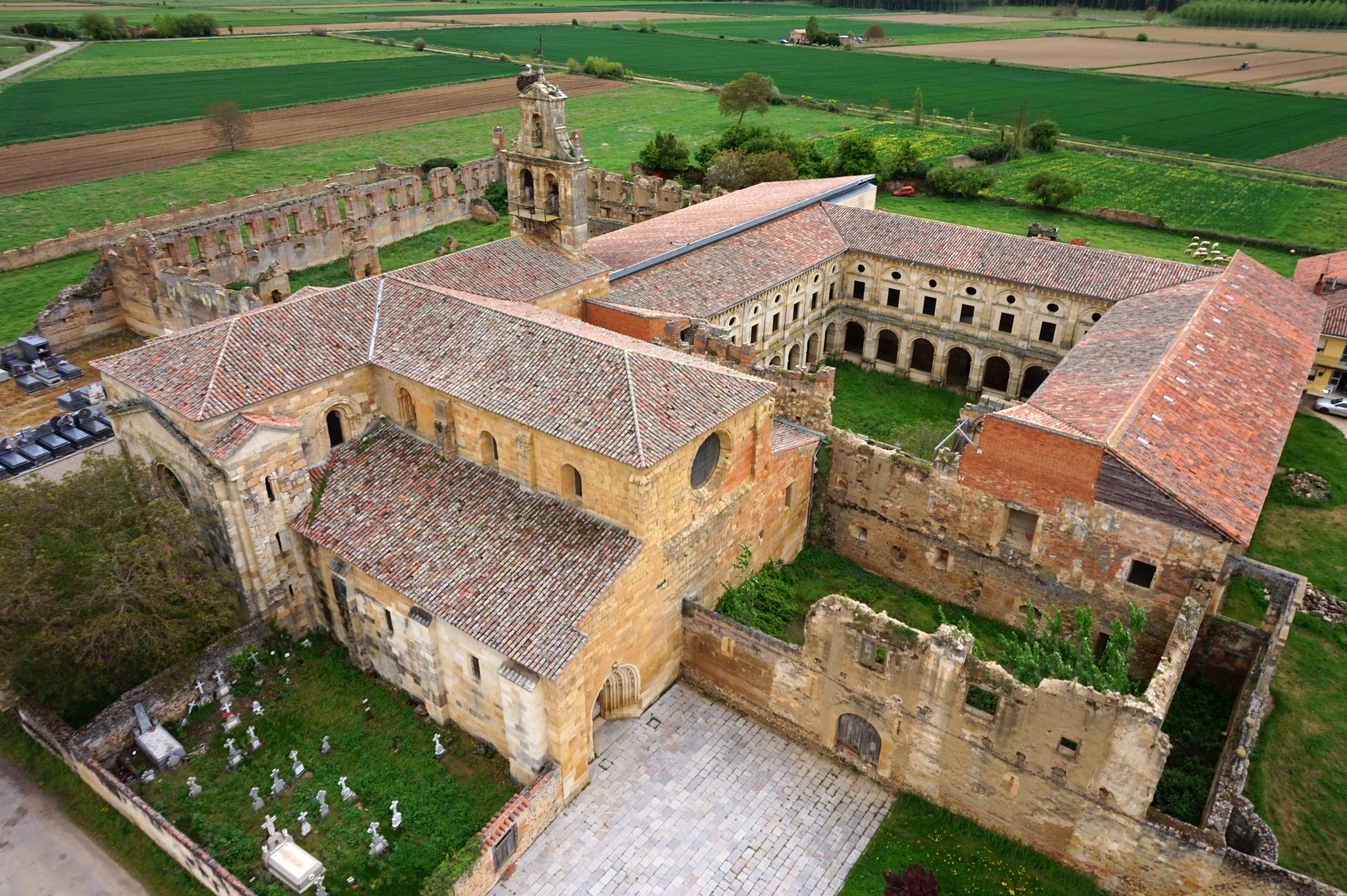 Aerial view of monastery of Saint Mary of Sandoval in Villaverde de Sandoval, Mansilla Mayor (León, Spain). Picture taken by Smart Drone with a drone.